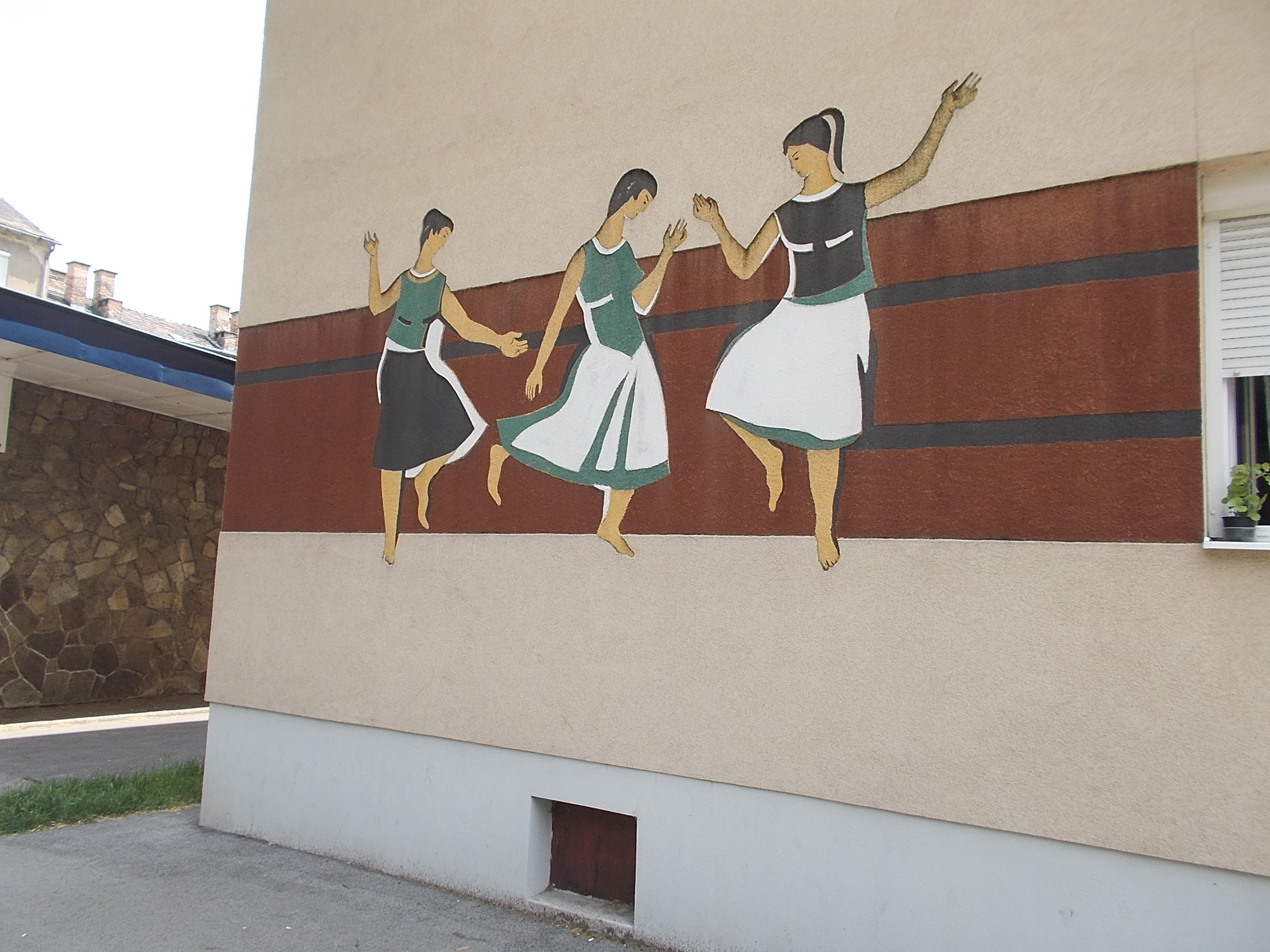 Dancers by László Ridovics (sgraffitto, 1959, replica by Zámbó Kornél, 2012). - 32 Rákóczi street, Oroszlány, Komárom-Esztergom County. Аҧсшәа: Táncoló lányok (Ridovics László (festőművész), Zámbó Kornél (festőművész), 2012) Helyi védelem alatt Oroszlány Város Önkormányzata Képviselő-testületének 1/2018. (I.28.) önkormányzati rendelete a településkép védelméről. Azonosító -9982- Komárom-Esztergom megye, Oroszlány, Rákóczi Ferenc út 32? This is a photo of a monument in Hungary. Identifier: -9982